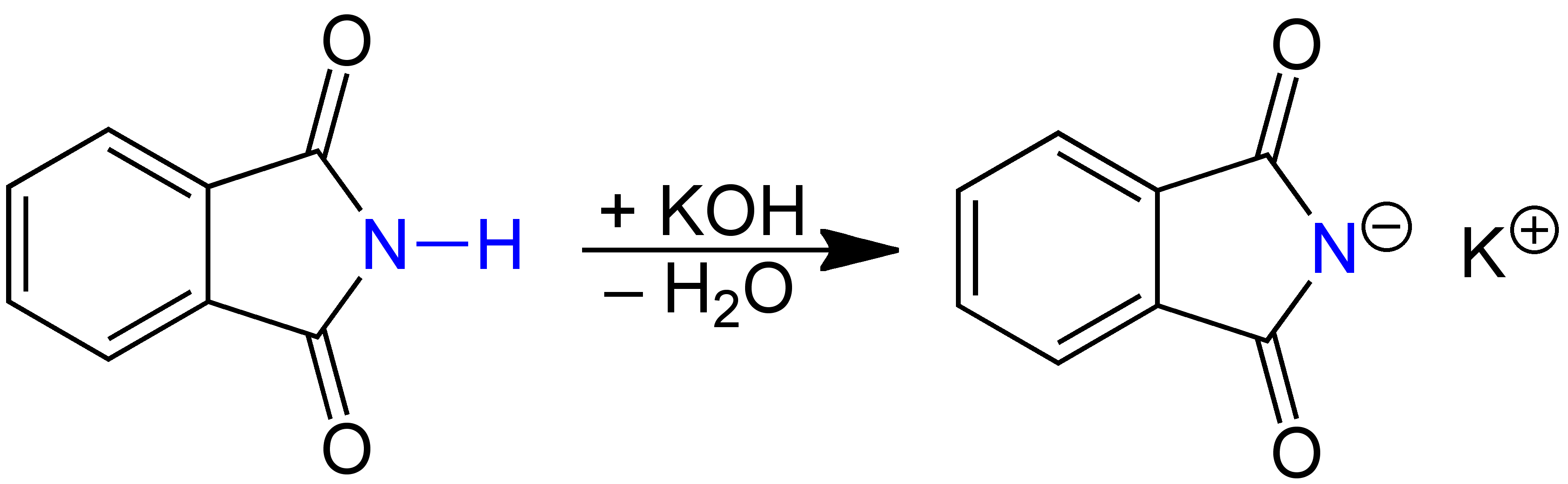 NH-Acidity_Phthalimide